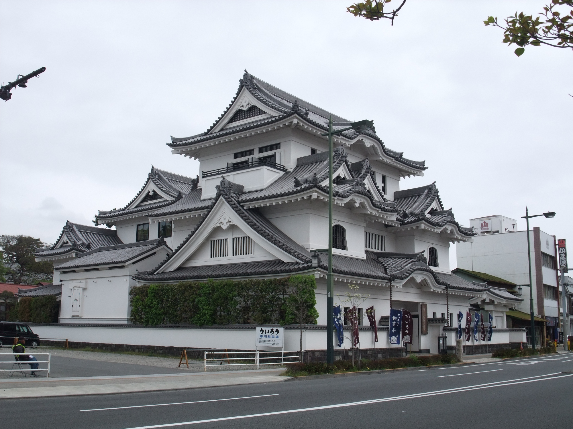 UIROU (Japanese pharmacy and Wgashi shop) in Odawara-shi, Kanagawa